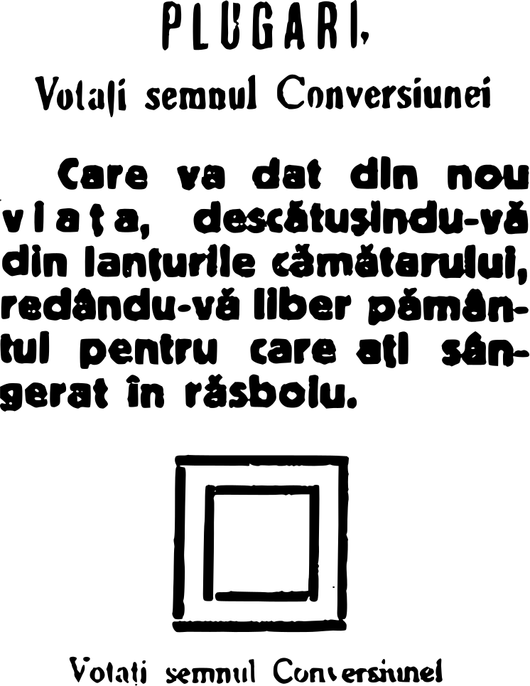 Electoral poster of Romania's National Democratic Party, used in the 1932 election; prominently features the party two-squares logo. Reads: Plugari, Votați semnul Conversiunei, Care va [sic] dat din nou viața, descătușindu-vă din lanțurile cămătarului, redându-vă liber pământul pentru care ați sângerat în răsboiu. Votați semnul Conversiunei ("Plowmen, Vote for the symbol of [debt] Conversion, which has restored your life, breaking apart the usurer's bondage, returning to you for free the land for which you have suffered during the war. Vote for the symbol of Conversion").